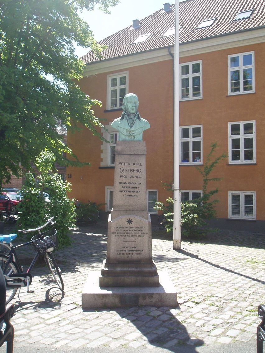 Bust of Peter Atke Castberg erected at Kastelsvej in Copenhagen.